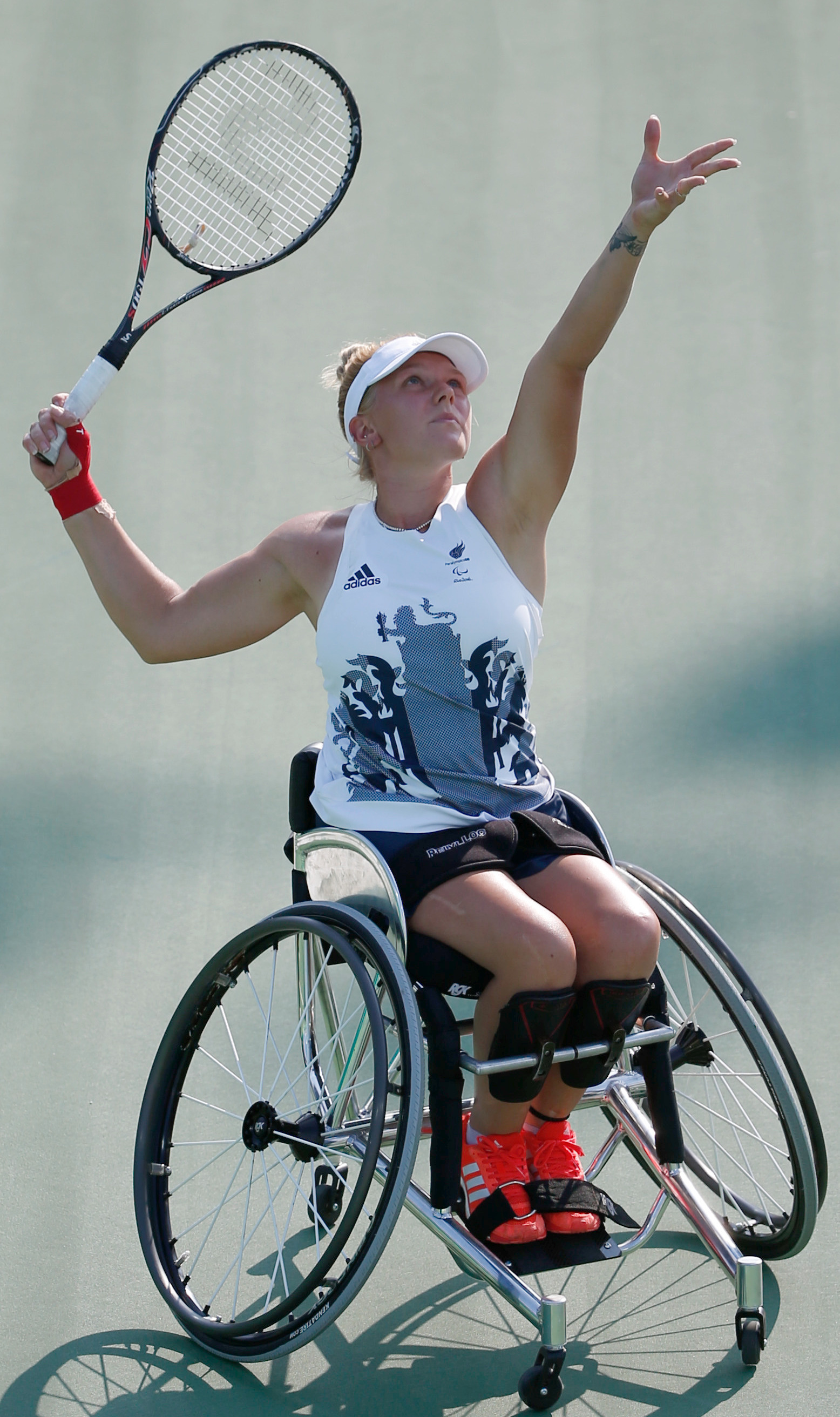 Jordanne Whiley vs Natália Mayara, second round of women's singles, Rio Pralympics2016.